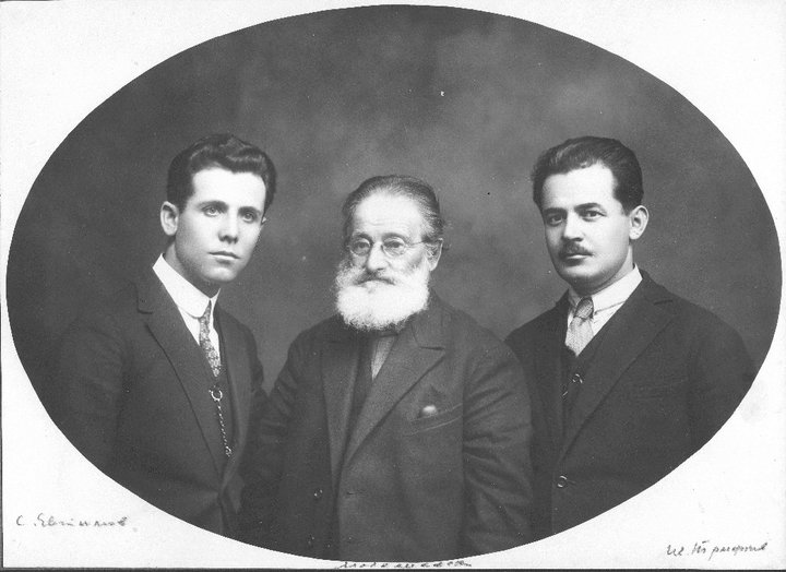 Simeon Evtimov, Nikola Maleshevski and Ivan Trifonov - members of IMARO/IMRO and legal macedonian activists in Bulgaria